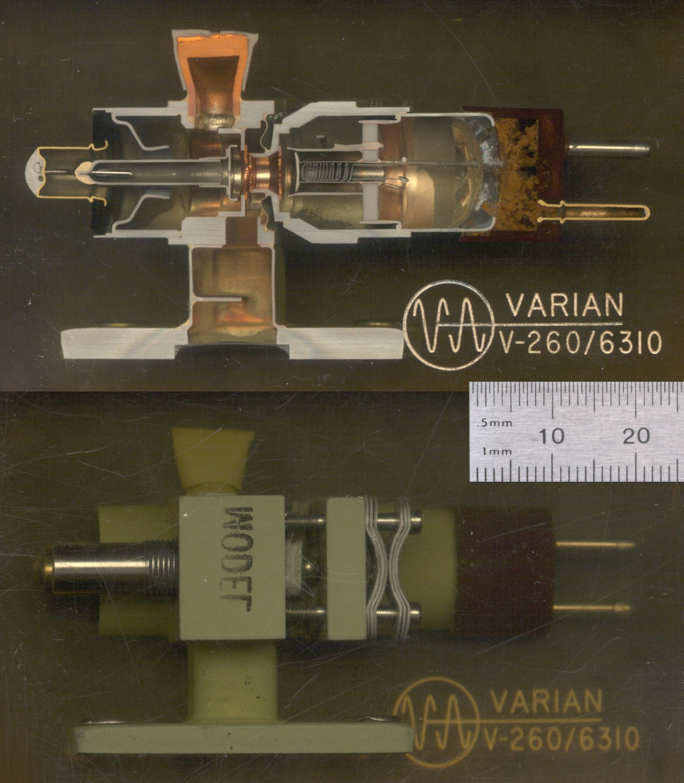 Cutaway model of a reflex klystron. Reversed image of back shows mechanical cavity adjustment.